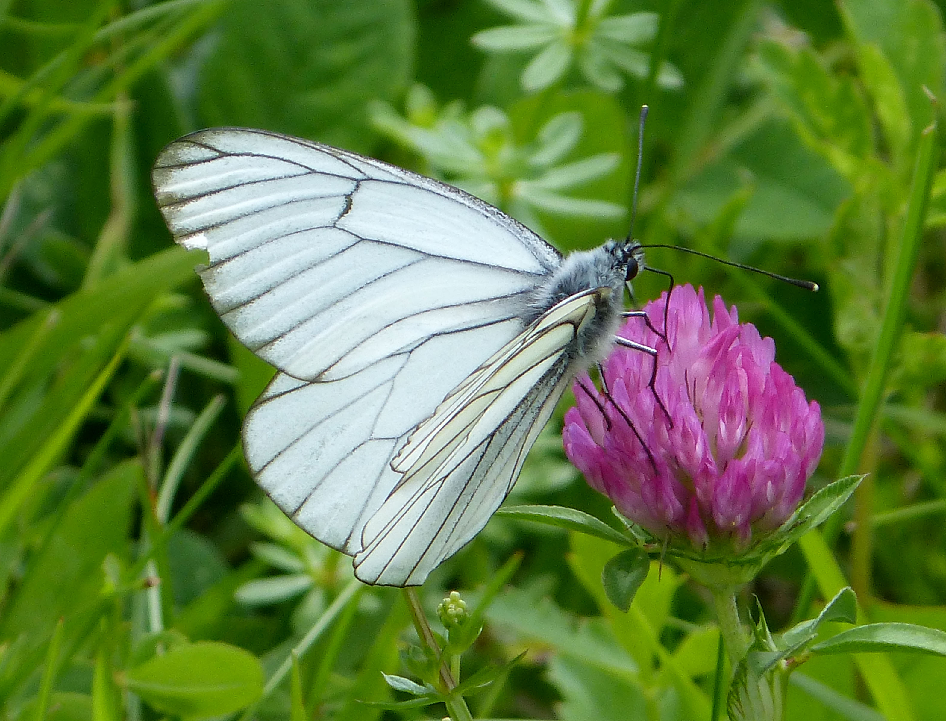 Black-veined White. Aporia crataegi. Male